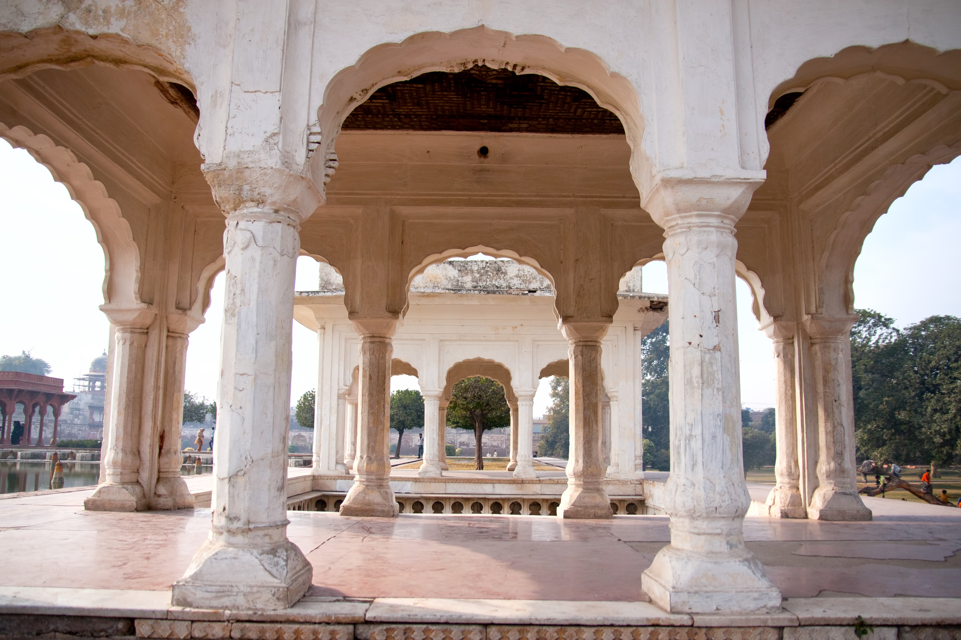 Shalamar Gardens This is a photo of a monument in Pakistan identified as the PB-84